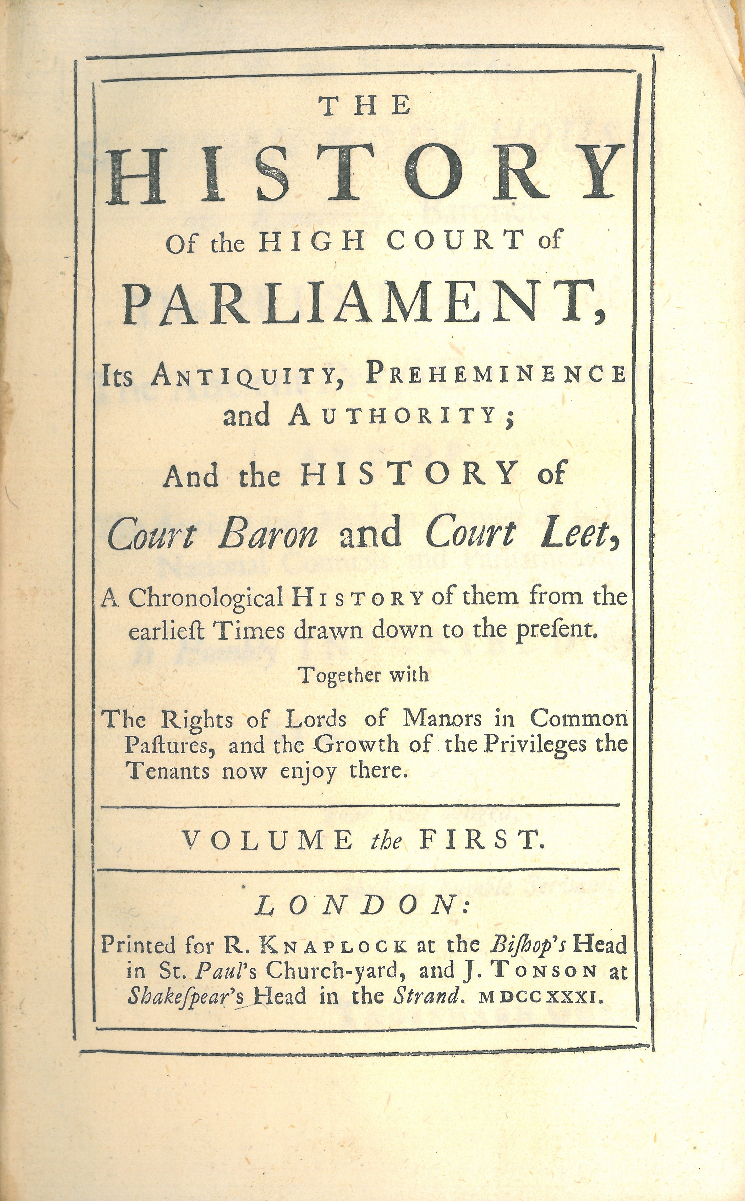 The title page in volume 1 of Thornhagh Gurdon (1731) The History of the High Court of Parliament, its Antiquity, Preheminence and Authority; and the History of Court Baron and Court Leet, a Chronological History of Them from the Earliest Times Drawn Down to the Present. Together with the Rights of Lords of Manors in Common Pastures, and the Growth of the Privileges the Tenants Now Enjoy There, London: Printed for R. Knaplock at the Bishop's Head in St. Paul's Church-yard, and J[acob] Tonson at Shakespear's Head in the Strand OCLC: 5755818.